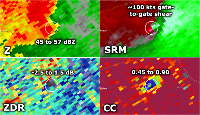 Four radar products showing a debris ball associated with an EF2 tornado. Clockwise from top left: base reflectivity; surface velocity; correlation coefficient, and differential reflectivity.